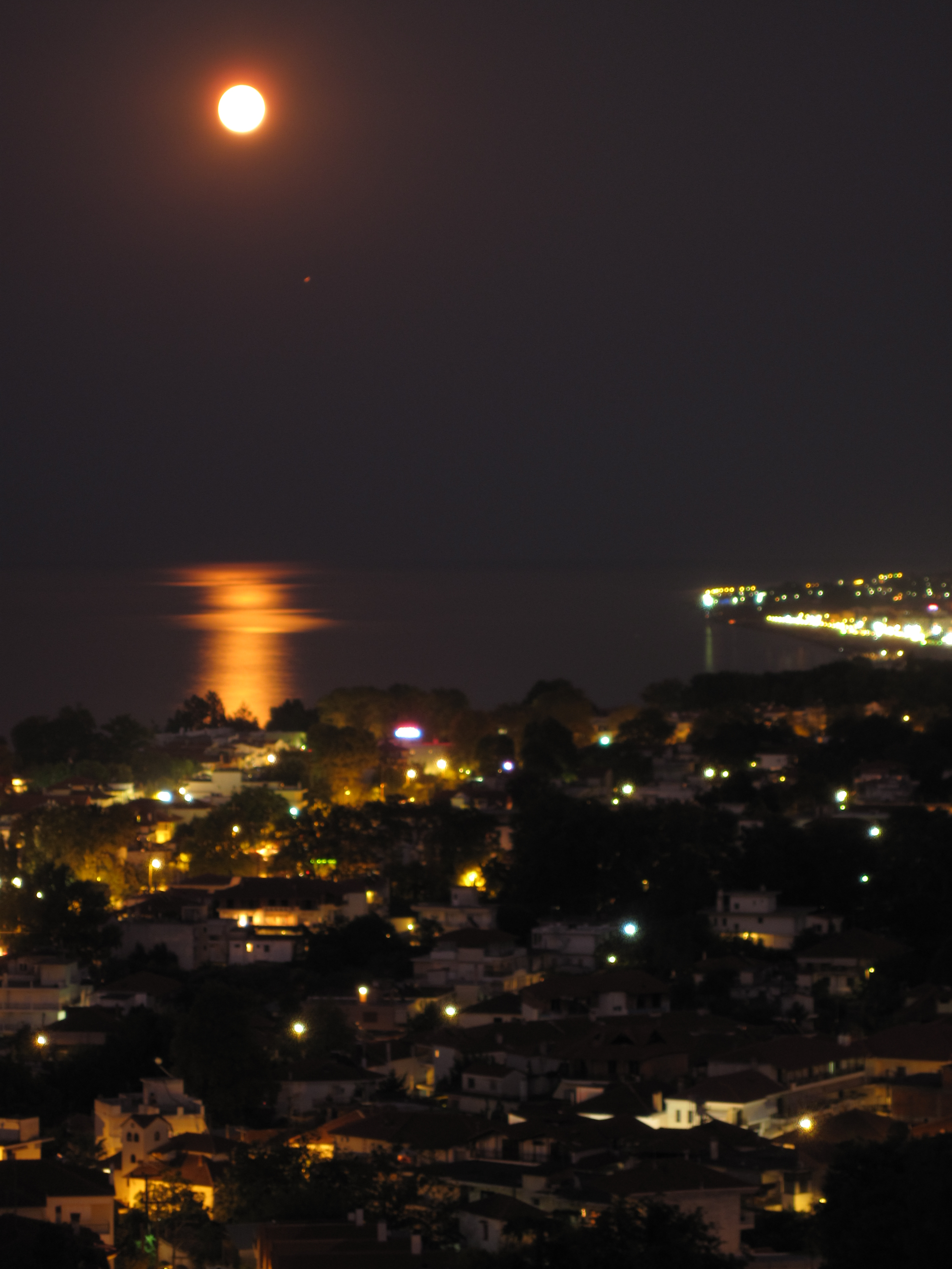 Picture of Platamon taken at night